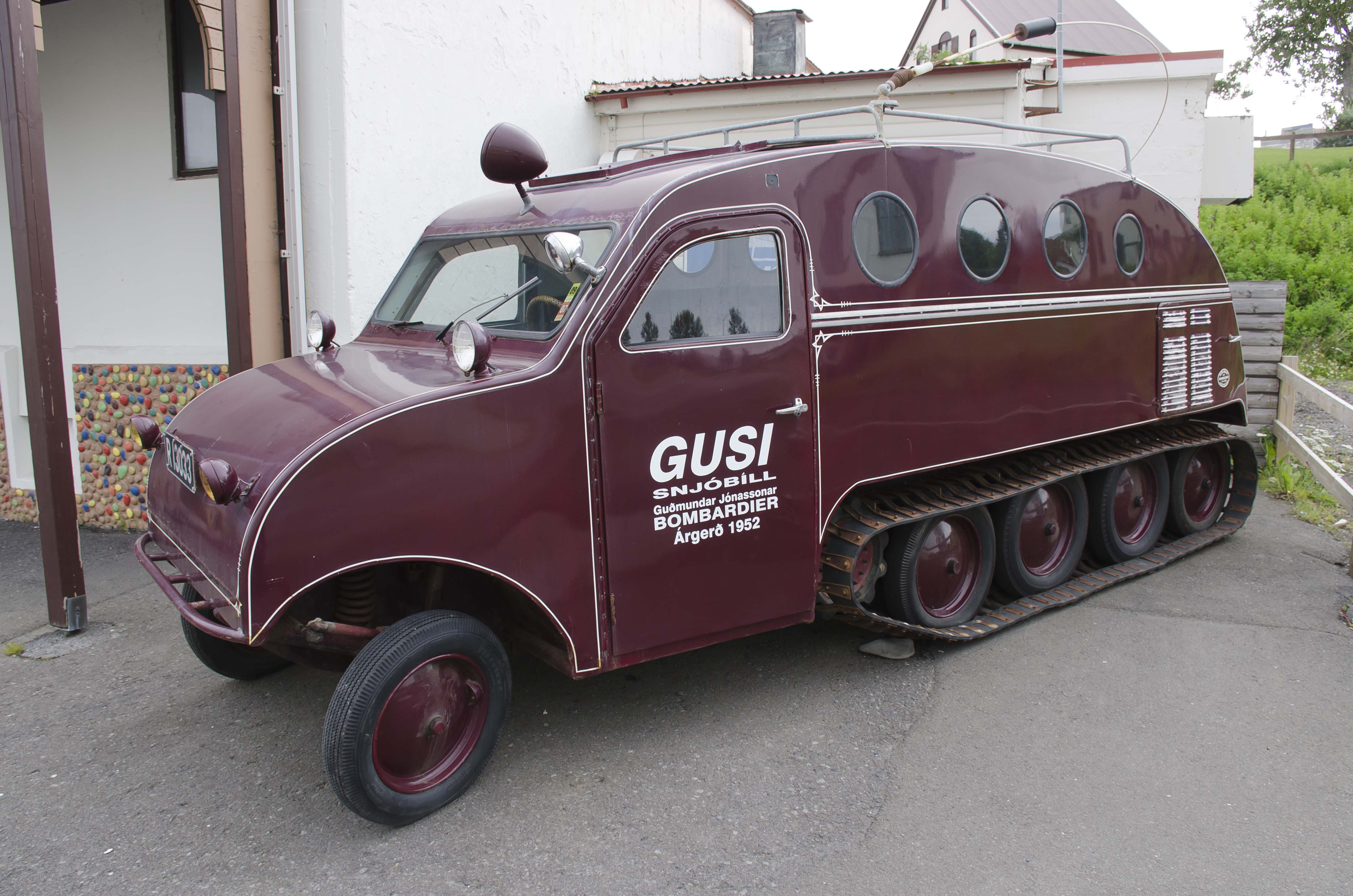 Bombardier snowmobile, built in 1952. Húsavík, Iceland.